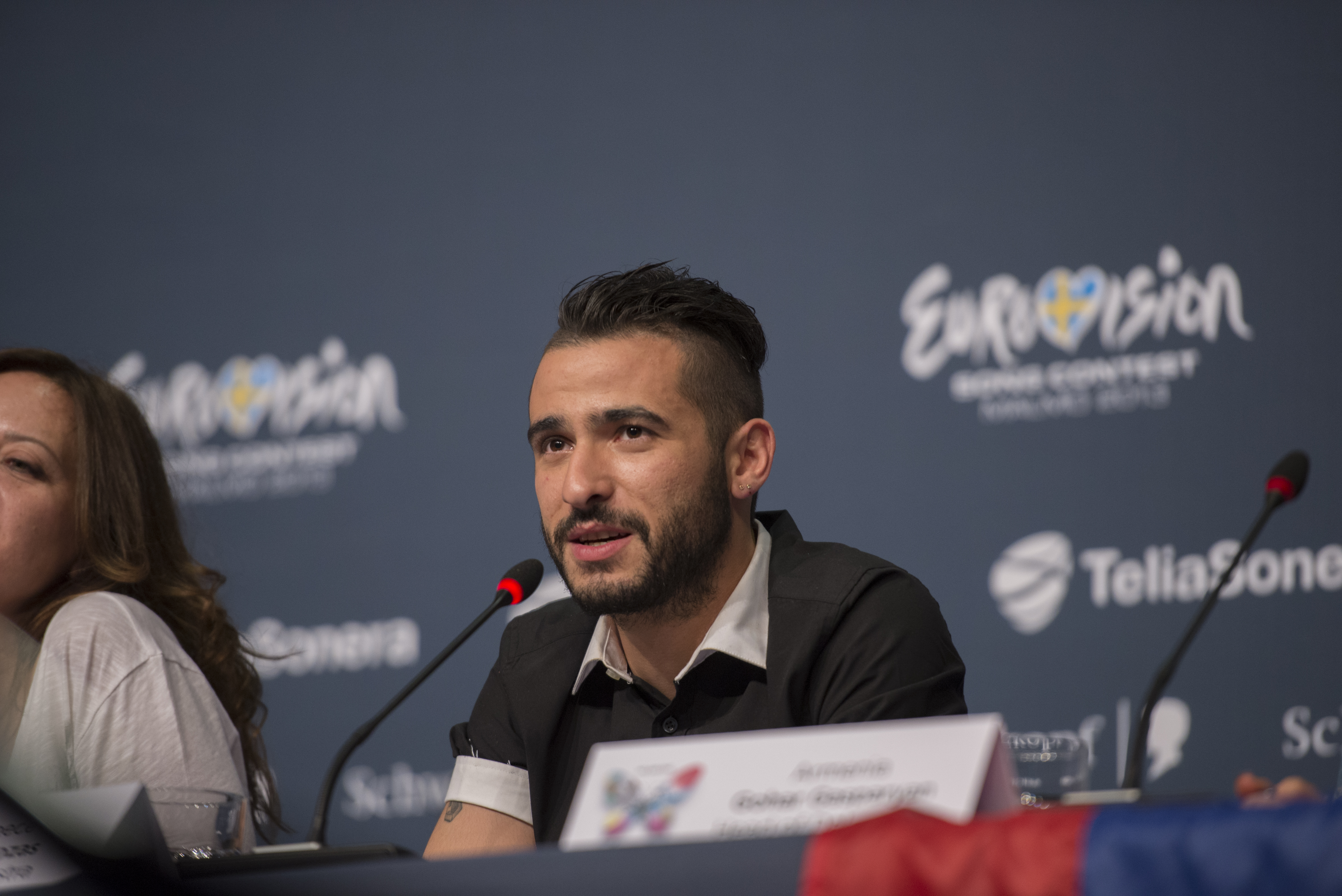 Ilias Kozas from Koza Mostra feat. Agathon Iakovidis at a press conference during the Eurovision Song Contest 2013 in Malmö. (Help translate this text)